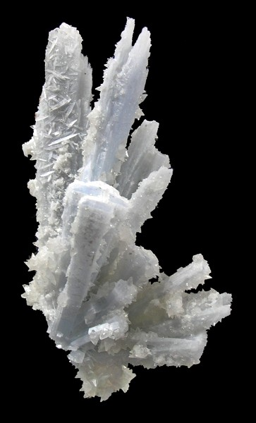 Anhydrite, Calcite Locality: Naica, Municipio de Saucillo, Chihuahua, Mexico (Locality at ) Size: 12.3 x 6.9 x 4.8 cm. A cluster of beautiful light blue-grey anhydrite crystals, decorated with little spiky white calcites. The anhydrites measure up to 9 cm. A few of them are incomplete but most have their terminations. Elegant!